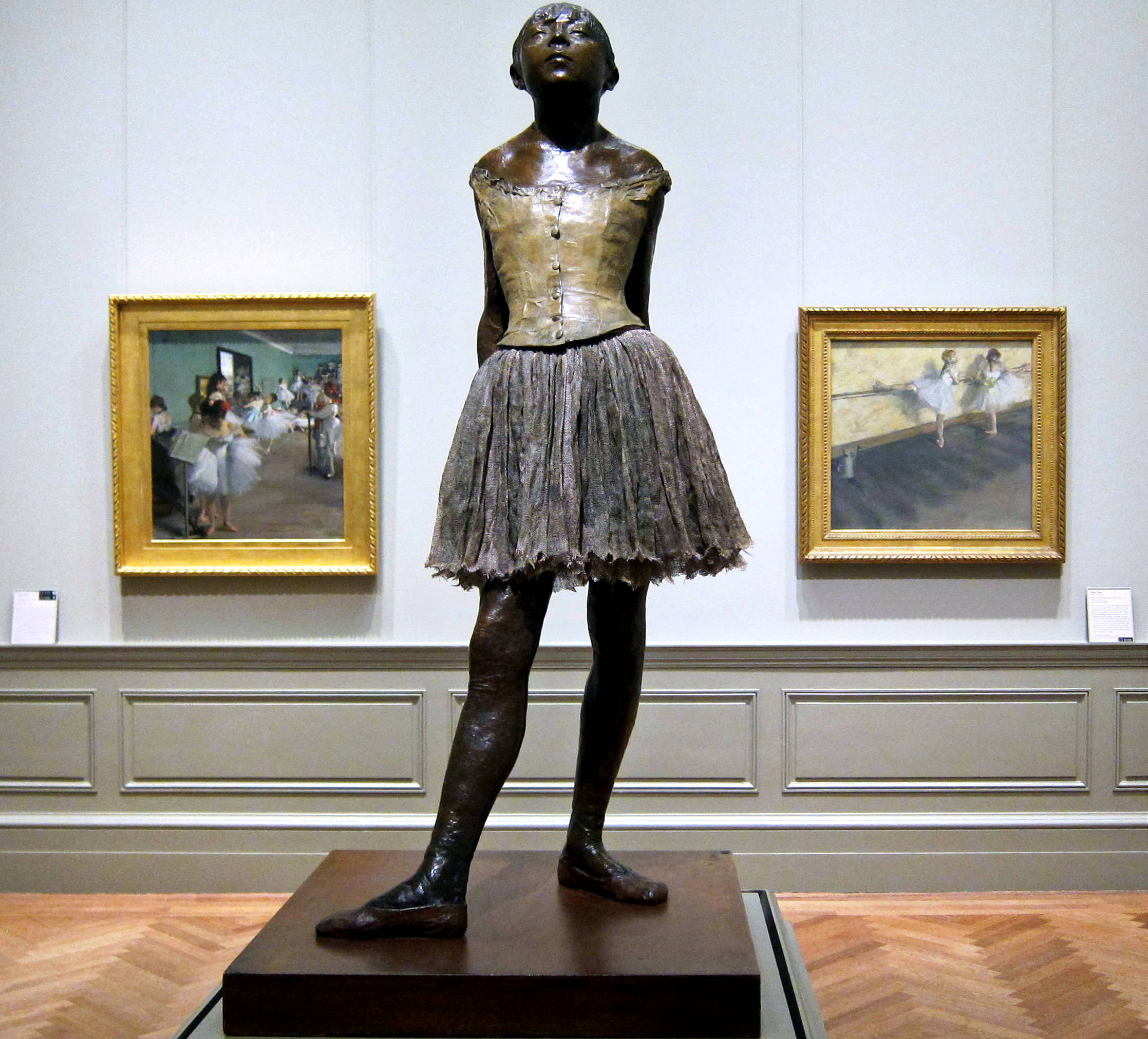 The Little Fourteen-Year-Old Dancer is an 1881 sculpture of Marie van Goethem by artist Edgar Degas. The sculpture seen here was cast in 1922 and is housed in the Metropolitan Museum of Art in New York City. Two of Degas' paintings are in the background.